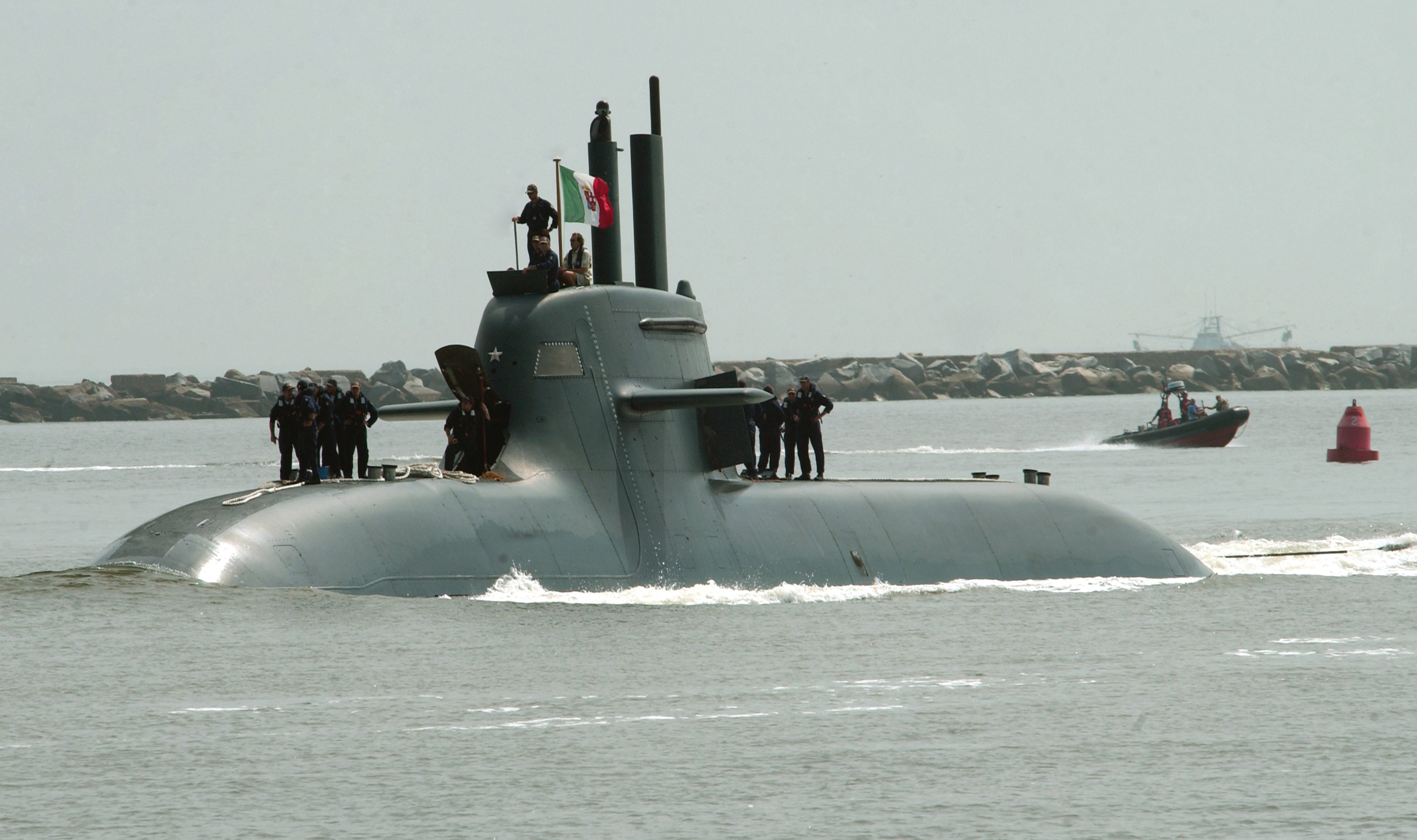 080711-N-3285B-008 MAYPORT, Fla. The Italian air-independent propulsion (AIP) equipped submarine ITS Salvatore Todaro (S-526) prepares to pull into port at Naval Station Mayport, which marks the first visit of an Italian submarine to the U.S. since World War II. Todaro's port visit is supporting the upcoming Theodore Roosevelt Carrier Strike Group joint task force exercise (JTFEX) and demonstrates the U.S. and Italian Navy's continued commitment to building a strong working relationship. JTFEX is designed to test and evaluate a battle group's reactions to multiple wartime scenarios and is the final certification for a battle group preparing to deploy.